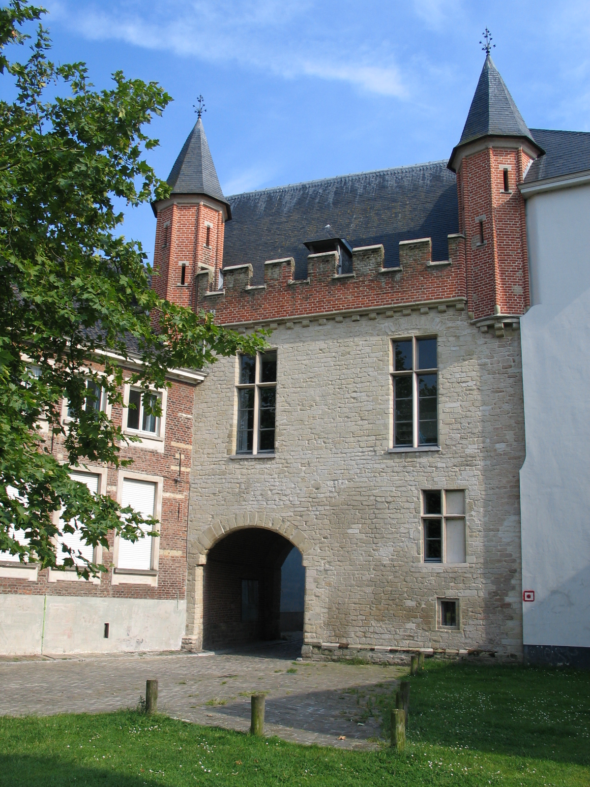 Hof ten Walle in Ghent, birth place of Charles V, Holy Roman Emperor. Ghent, East Flanders, Belgium